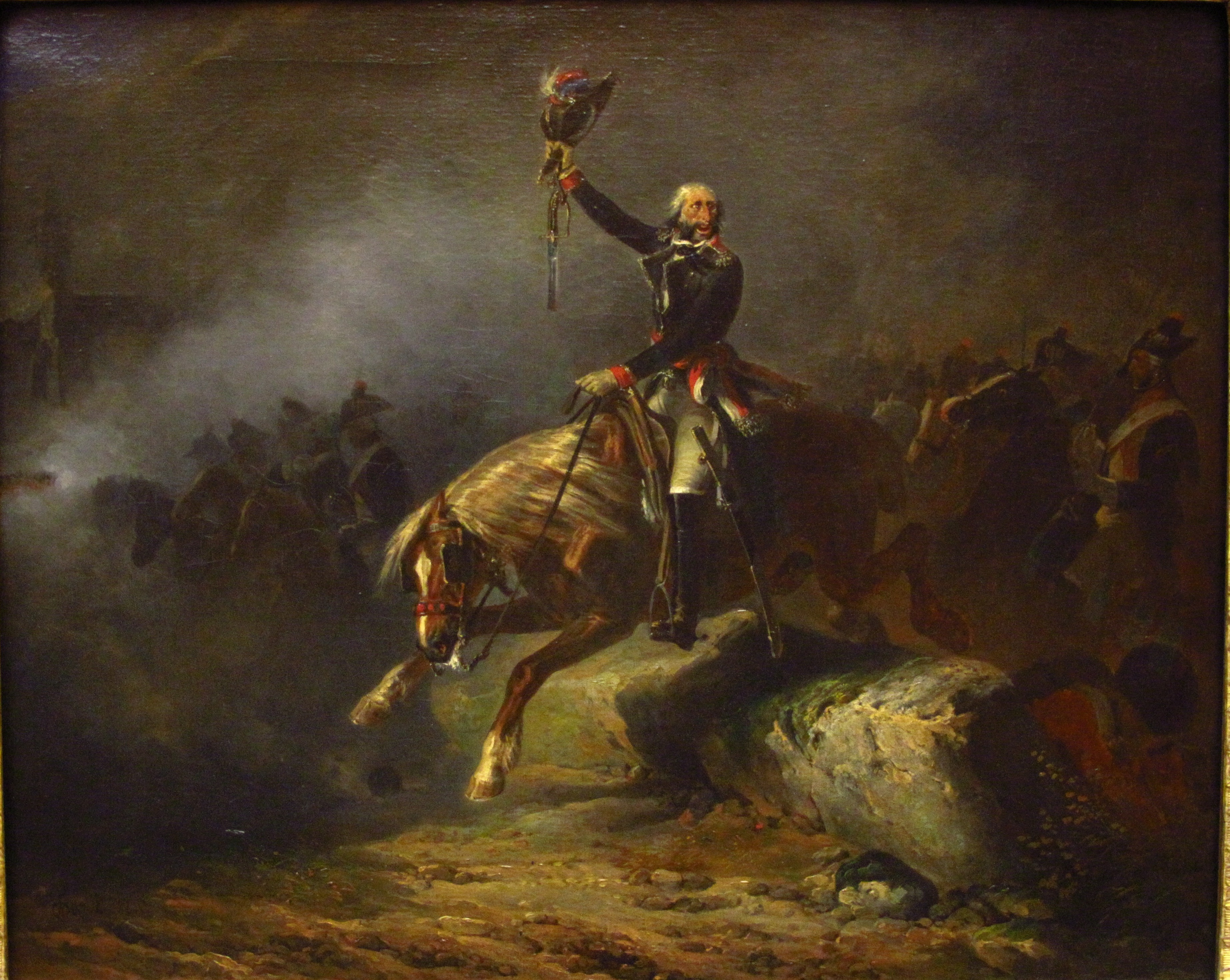 Merlin de Thionville.